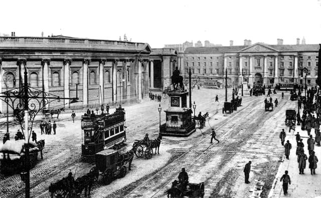 College Green. A Streetscene in Dublin 1903-1906 Flickr data on 2011-08-13 Tags: old picture, College Green, Dublin, Public Domain License: CC BY-SA 2.0 User: paukrus Ruslan